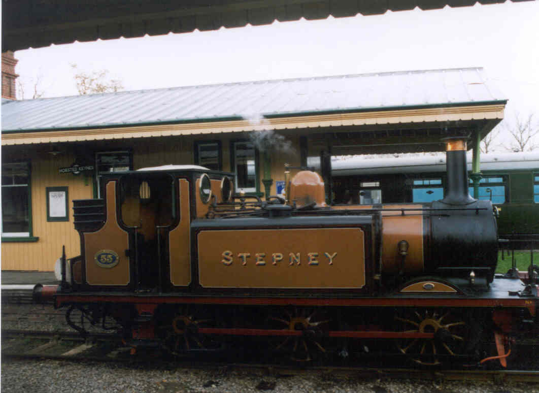 No 55 Stepney, LBSCR Stroudley Terrier Steam Engine at the Bluebell railway